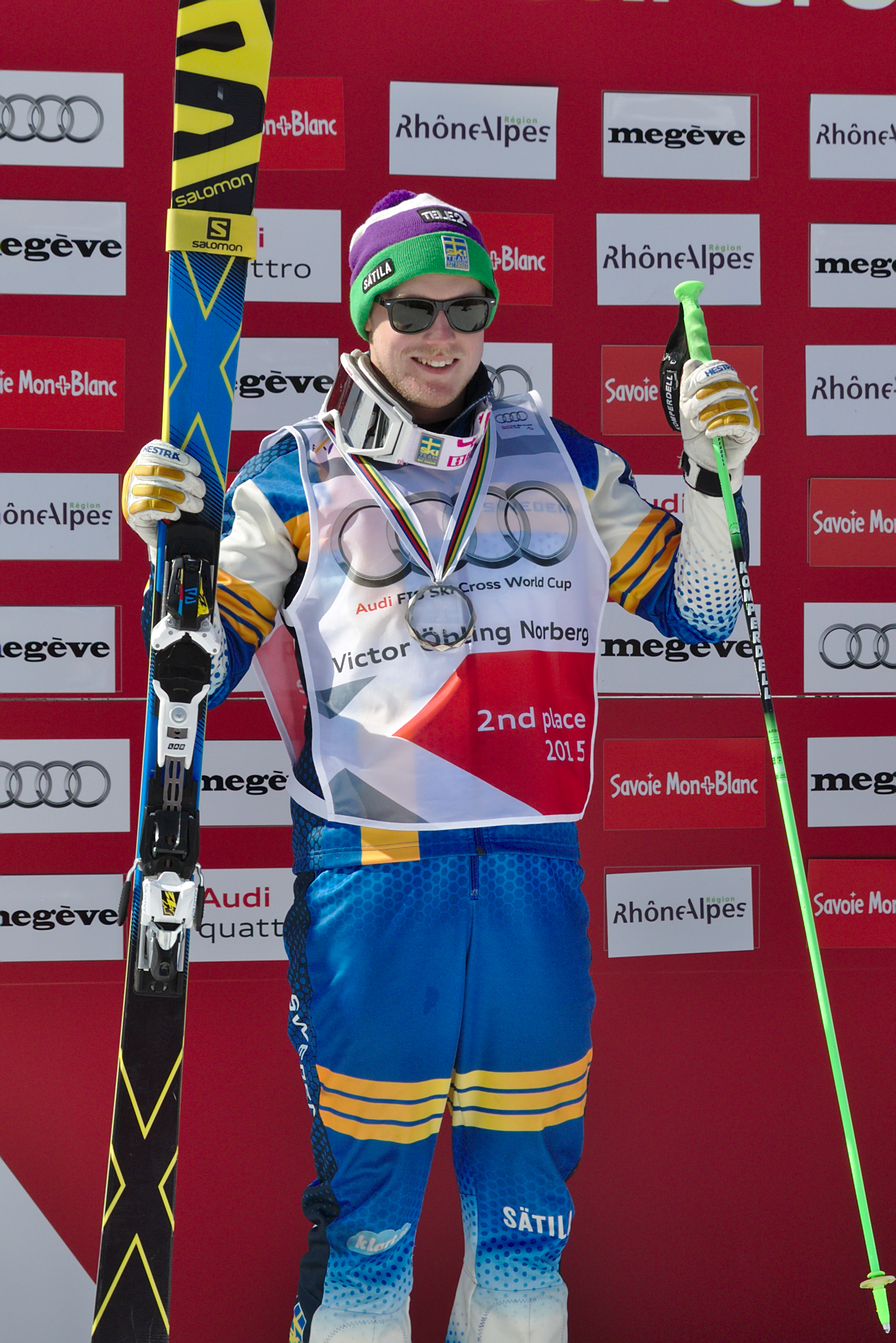 FIS Ski Cross World Cup 2015 Finals - Megève - 20150314 - Victor Öhling Norberg